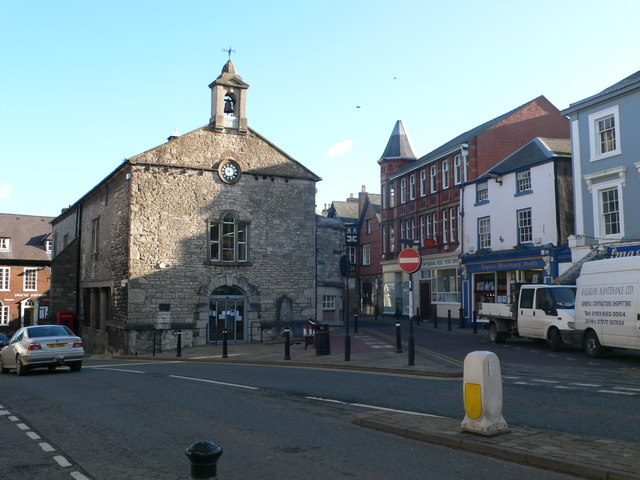 Denbigh Library The prominent building across Denbigh town square used to be the market hall, but has now been converted to be the town library.